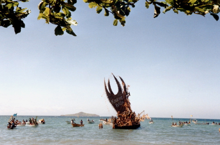 Hiri Moale Festival in Papua New Guinea. See Tourism of Papua New Guinea#Festivals. Celebrating independence from Australia and an old tradition of celebrating successful trading voyage (free of pirates) bringing vegetables back from a distant villiage.